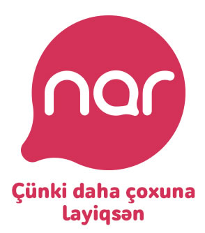 Updated logo and slogan of Nar brand by Azerfon LLC